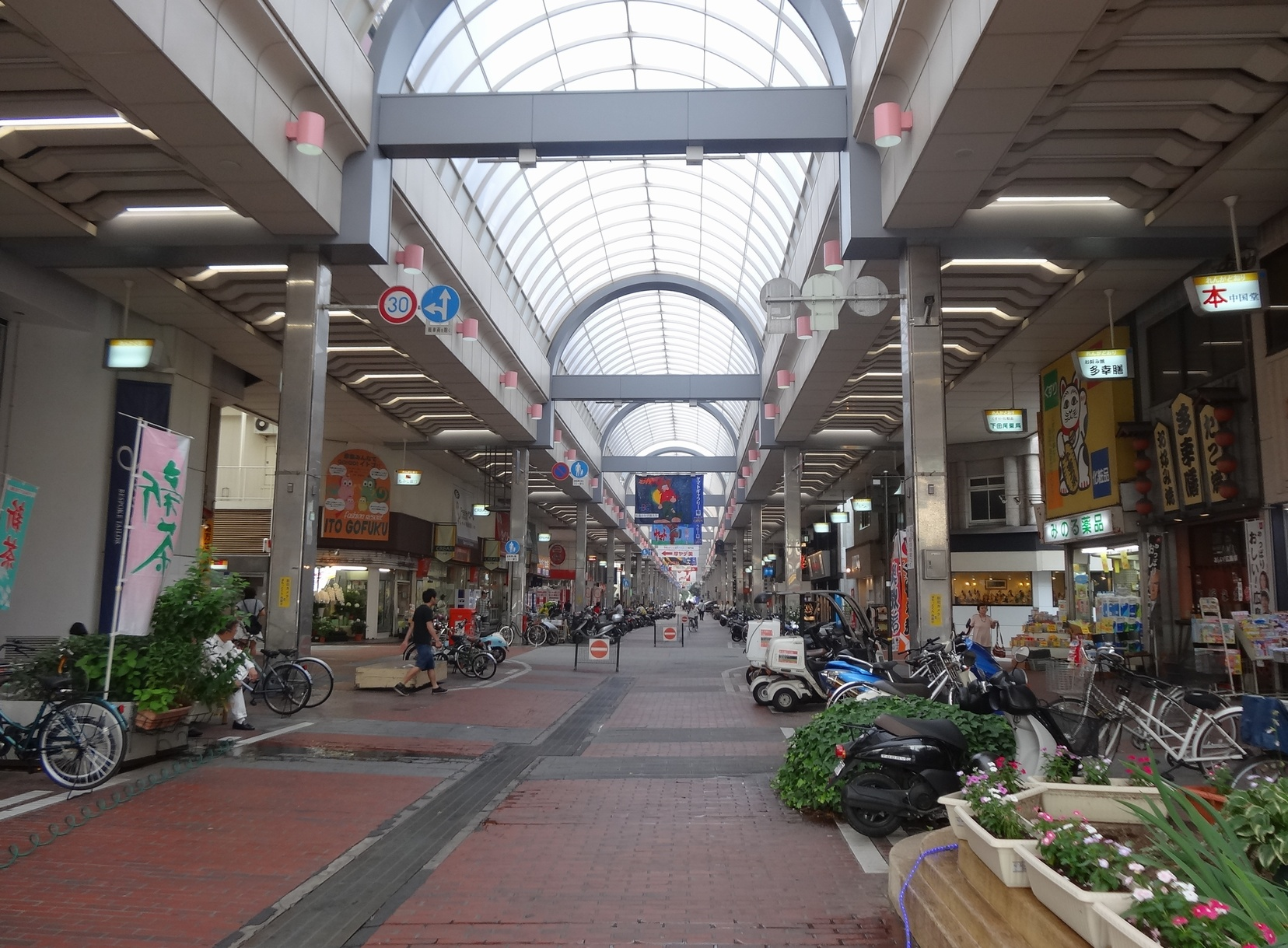 The Renga-Street in Kure City, Hiroshima Prefecture, Japan.